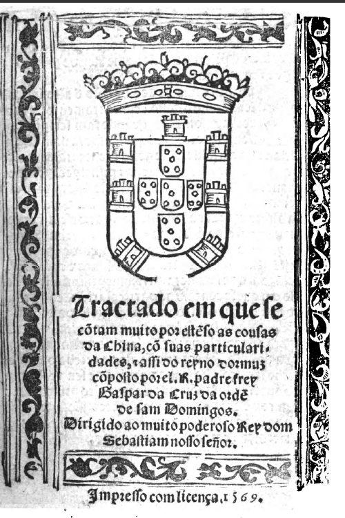 The title page of the Treatise in which is told much about the things of China, with their peculiarities, e also of the Kingdom of Hormuz. Composed by Father Gaspar da Cruz of the Order of St. Domingo. Dedicated to the most powerful King dom Sebastian, our lord. Published in 1569/1570, this is the very first European book specifically dedicated to China.